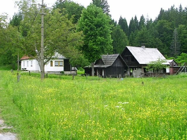 The village of Plitvički Ljeskovac in the Plitvice Region, Croatia